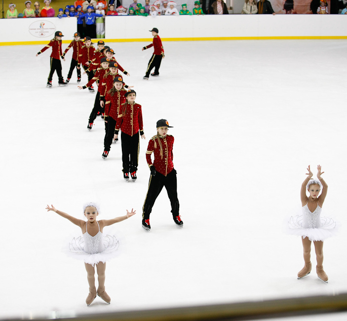 Пингвины